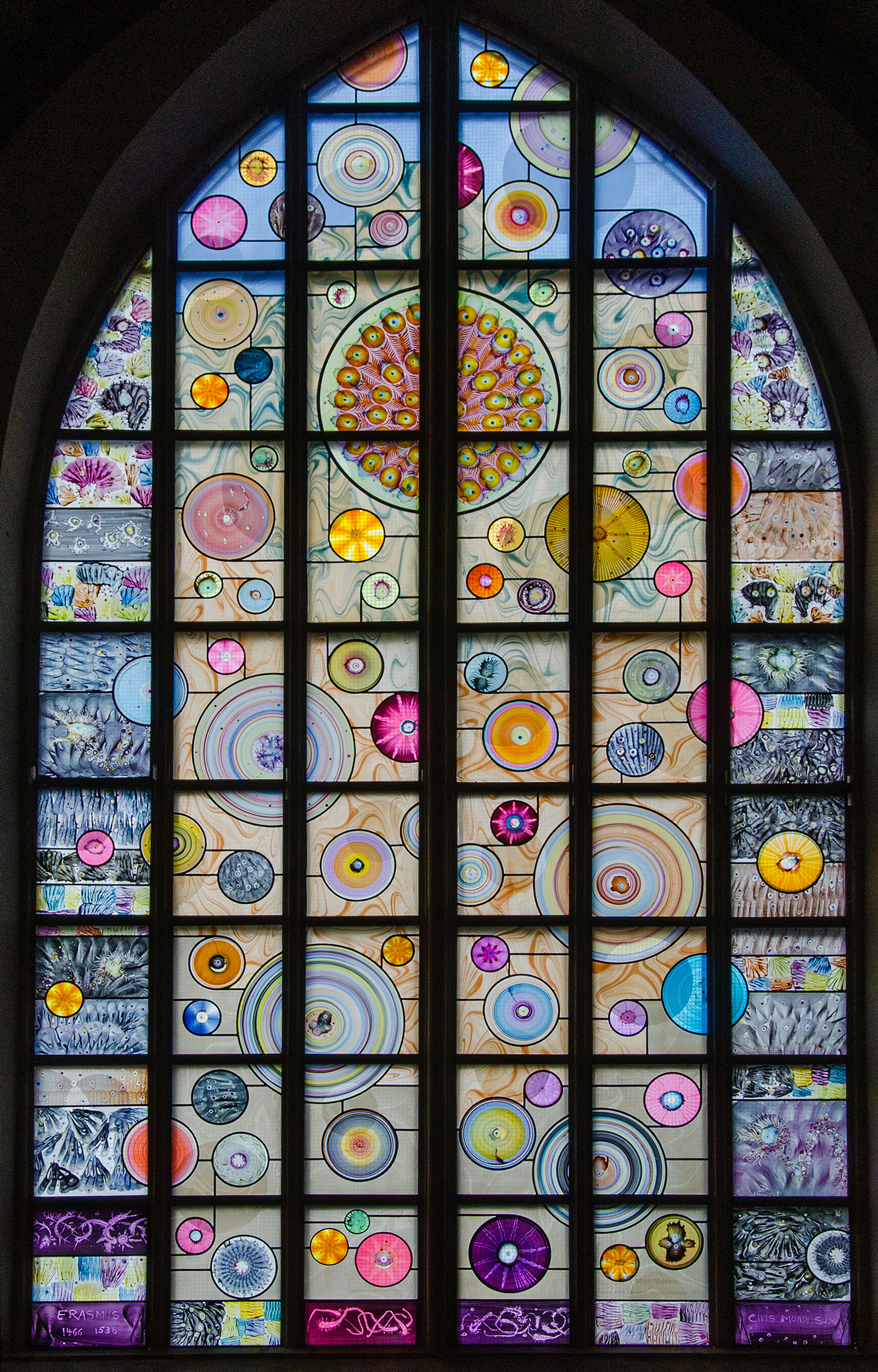 Stained glass window 1C in the Sint-Janskerk in Gouda, The Netherlands. The window was placed in 2016 to mark the 500th anniversary of Desiderius Erasmus' Novum Instrumentum. The window was created by Marc Mulders and is titled 'The freedom of conscience in 2016' and also called 'The Erasmus Window'.